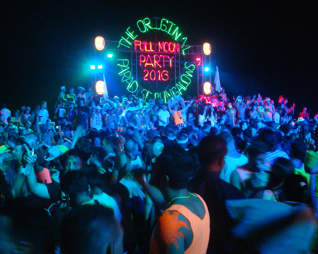 Full Moon Party 23rd February 2016, front of Paradise Bungalows at Haad Rin Sunrise Beach, Koh Phangan, Thailand.